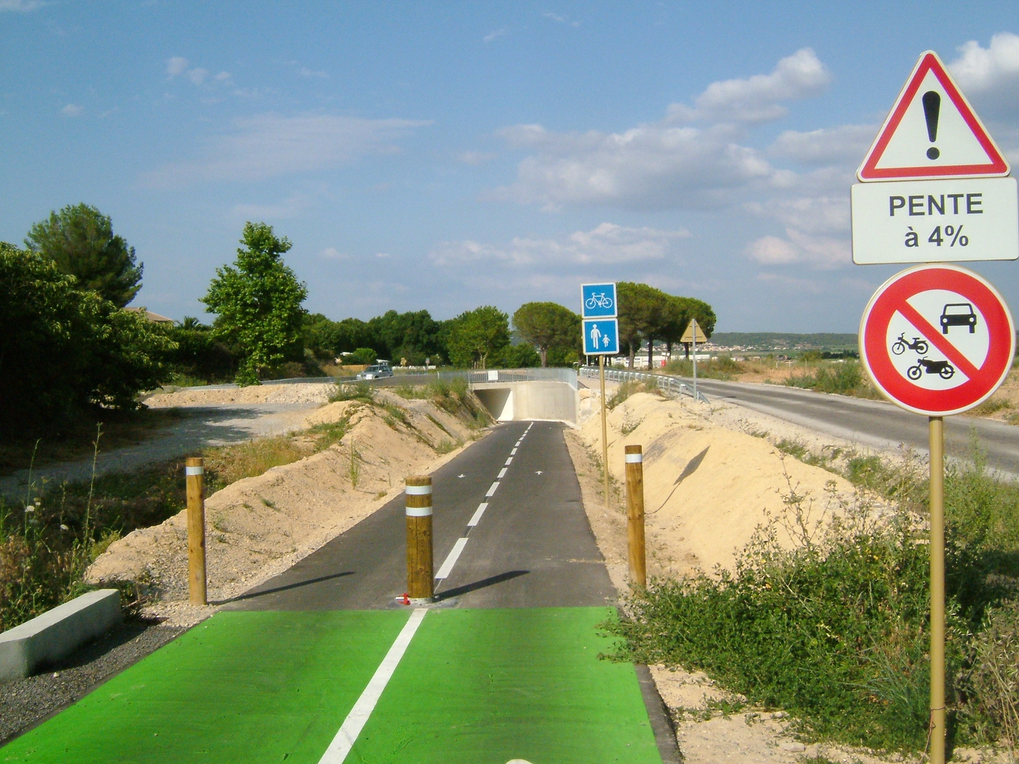 The Voie Verte as it passes through the Vaunage near 30420 Calvisson. At this point it is passing through a purpose built tunnel under the D40. Note the signs showing that pedestrians and cycles are allowed but motorised vehicles are forbidden. The gradient is signed because otherwise the entire route is flat.